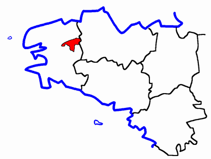 Description: Map for localisazion of cantons of Bretagne region in France Source: made by Hervé Tigier in april 2005 from another large map (published in 1990)